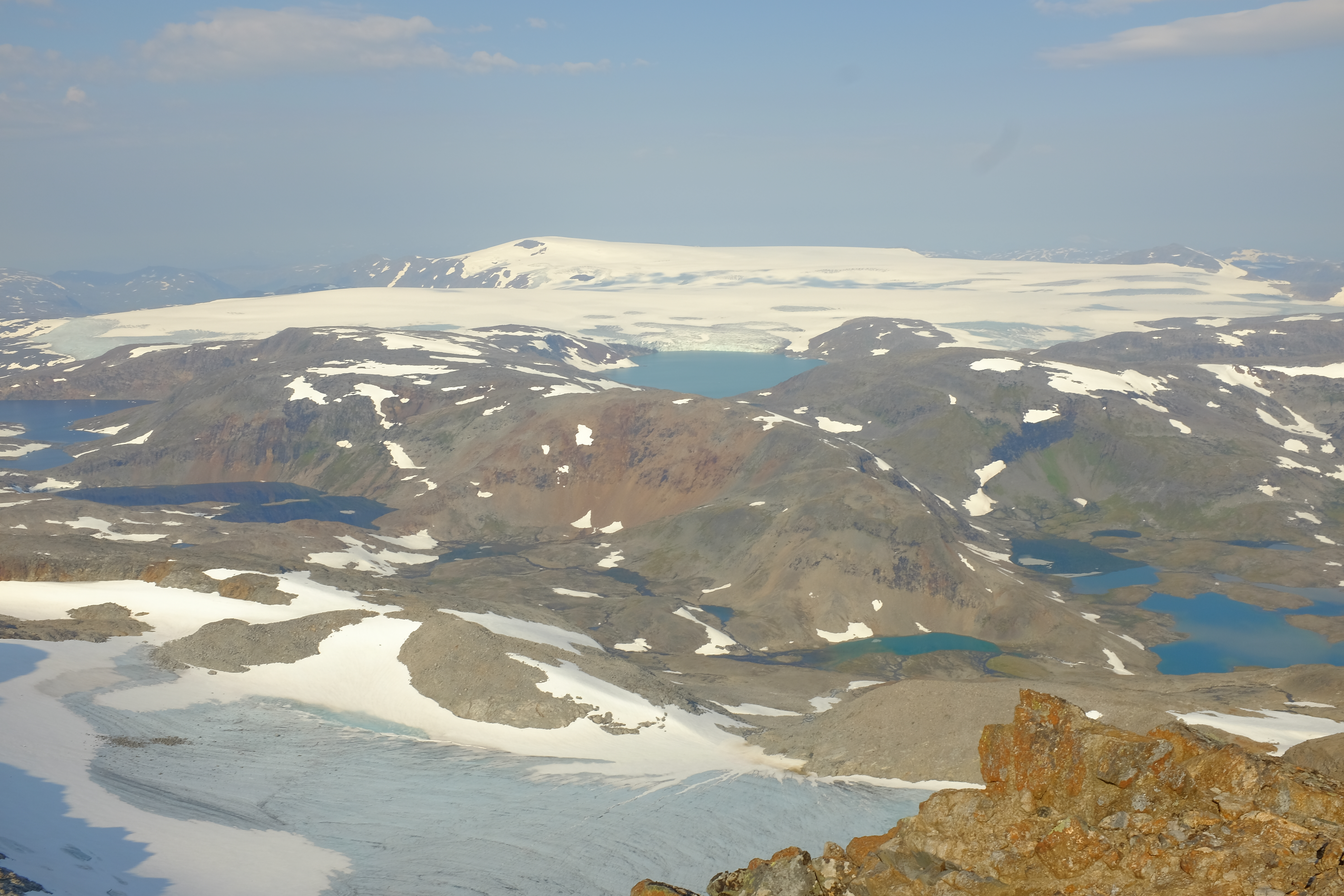 Sulitjelma is a mountain area in Norway and Sweden in the municipalities of Fauske and Jokkmokk. The glaciers form the basis for large watercourses.